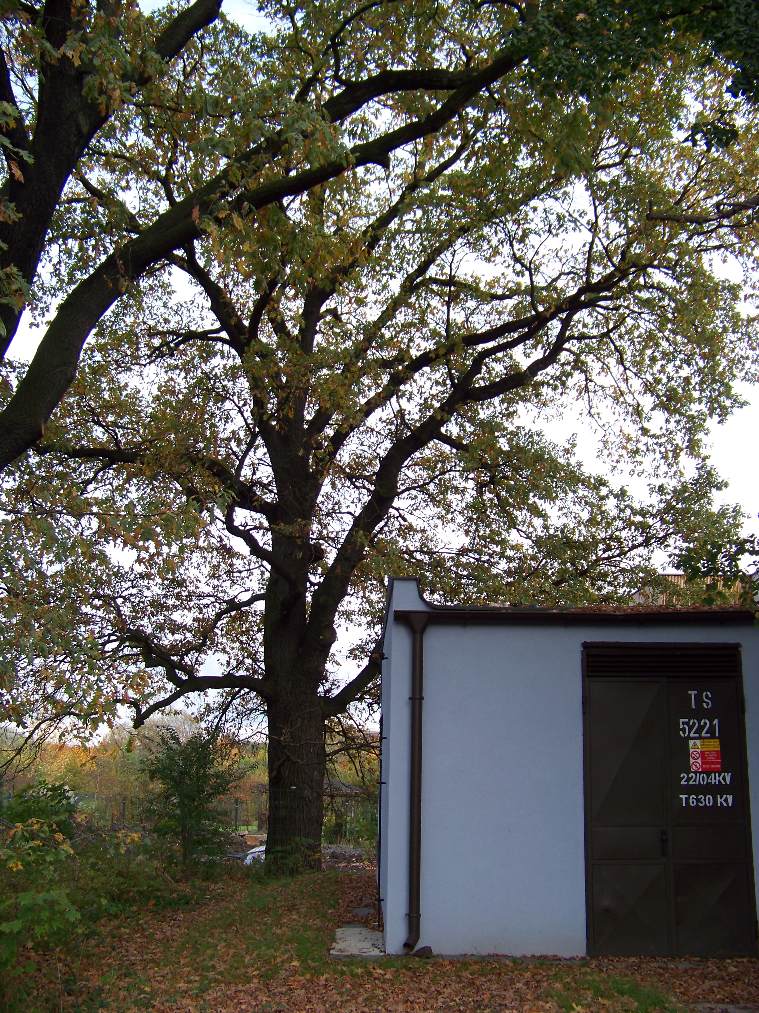 Prague-Hostavice, Czech Republic. Farská street, a memorable oak.